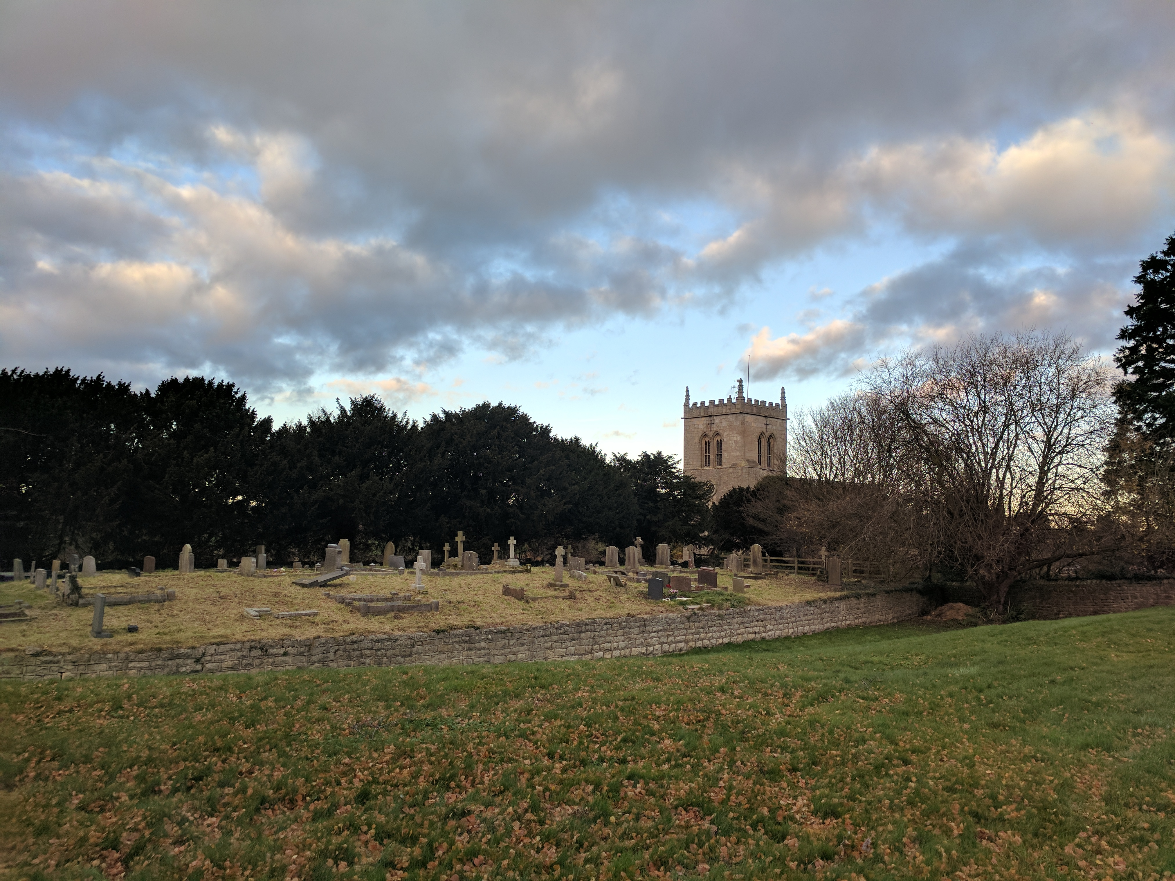 Cuckney motte and bailey castle, Norton Road, Cuckney, At the very extremity of the churchyard of St Mary's Church. Access via the gate in the grounds of Cuckney Village Hall Wikidata has entry Q17650136 with data related to this item.